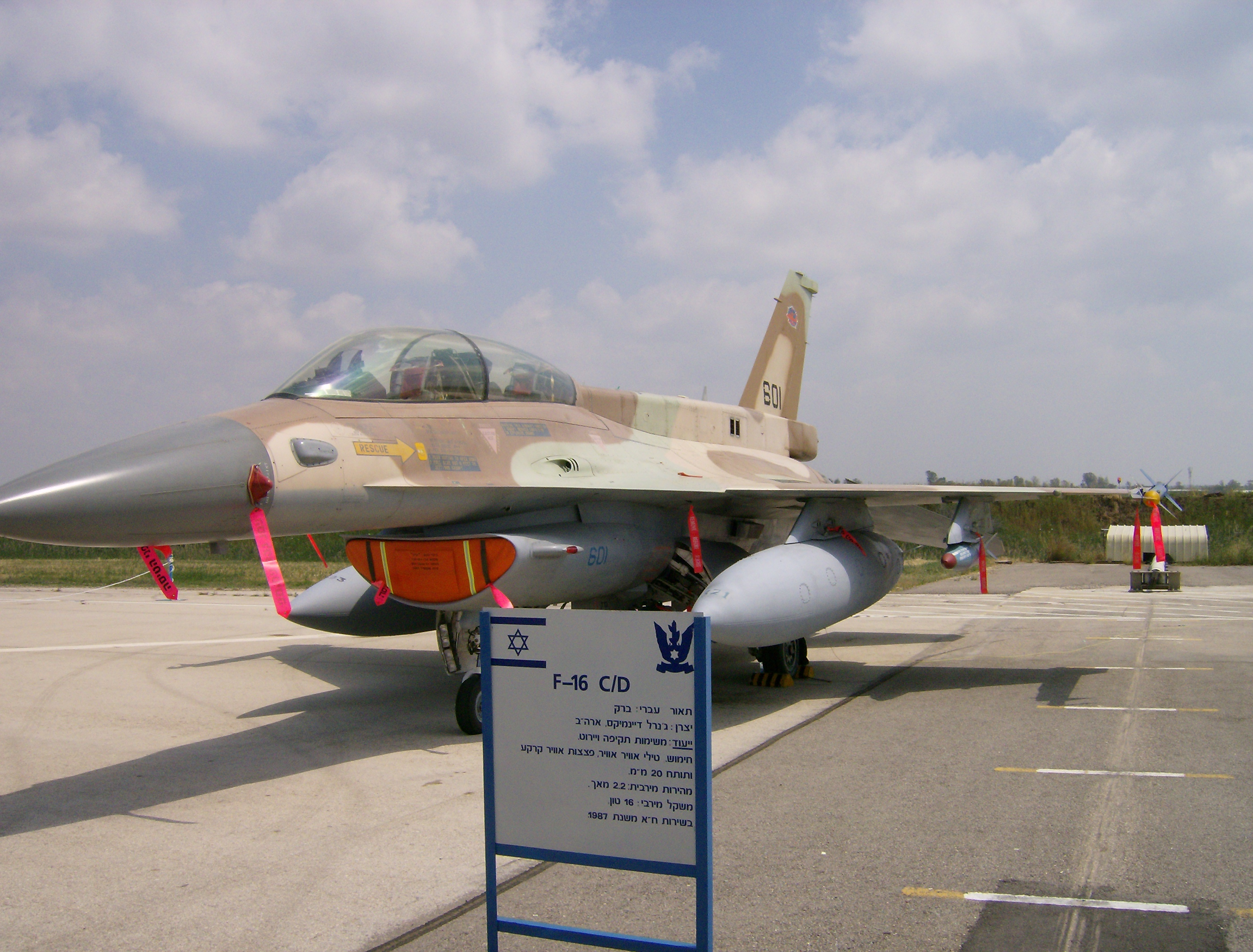 F-16D, Tel Nof , Israel